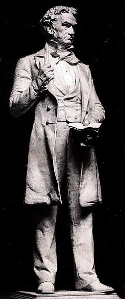 Photograph of the Rufus Choate memorial statue by noted American sculptor Daniel Chester French. This freestanding bronze statue is in the Old Suffolk County Court House, Boston, Massachusetts. It was unveiled on October 15, 1898. Although this photograph is undated, it appears to be contemporary; thus its copyright (if any) has expired.